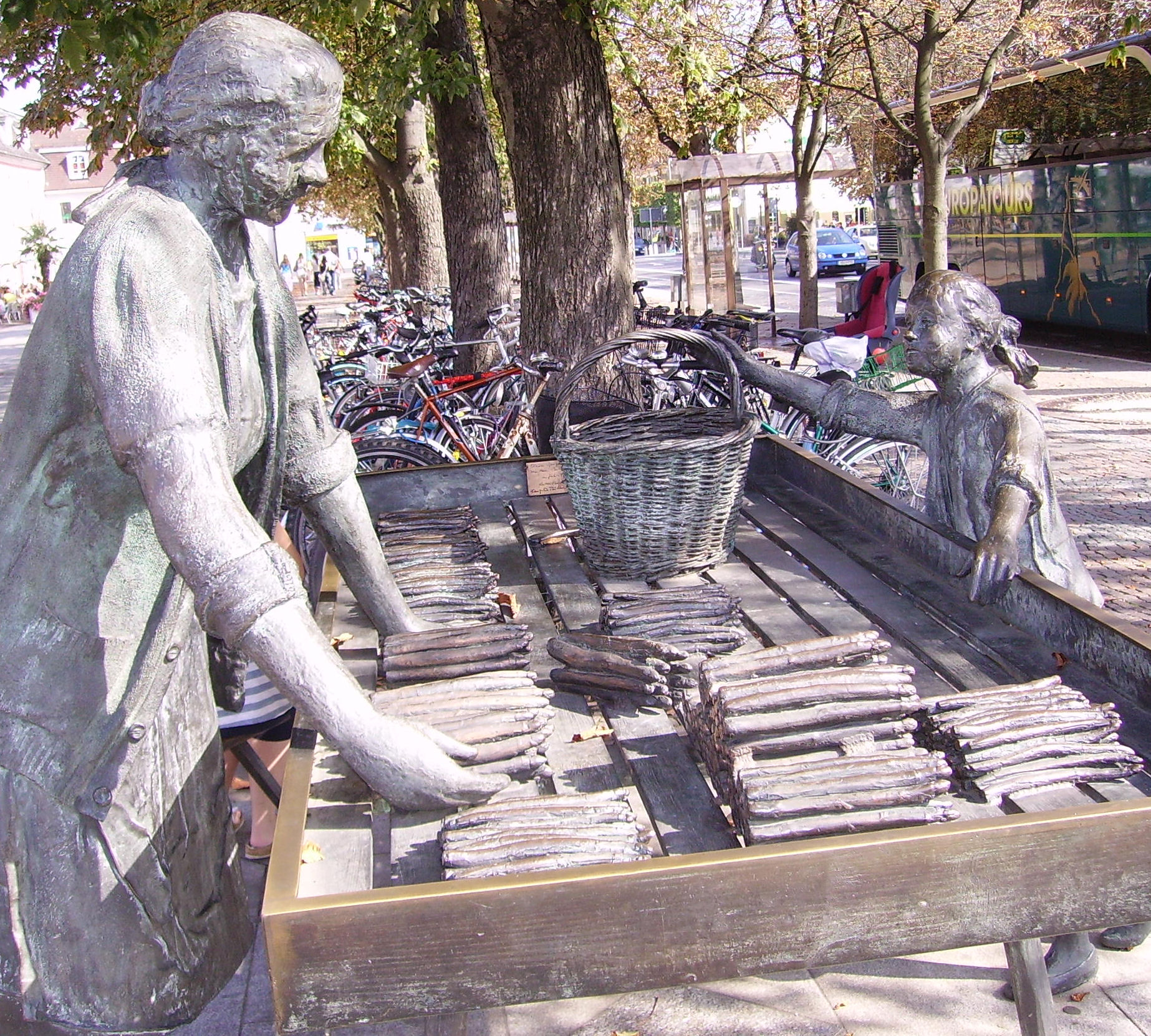 asparagus monument in Schwetzingen, Germany